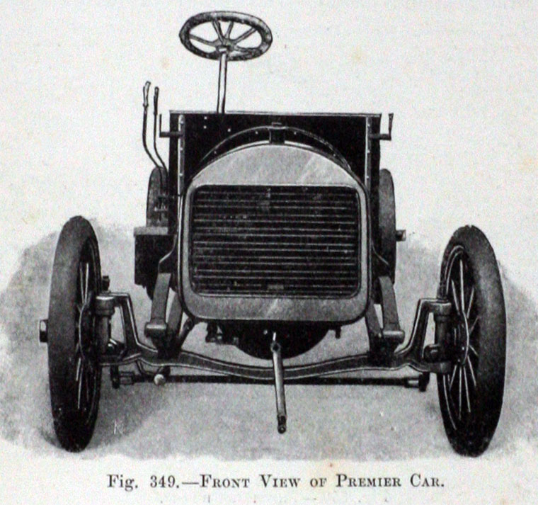 The Premier 16 HP 4 cylinder automobile was made in Birmingham for the 1907 model year only. This is obviously a pre-production Picture taken in 1906.